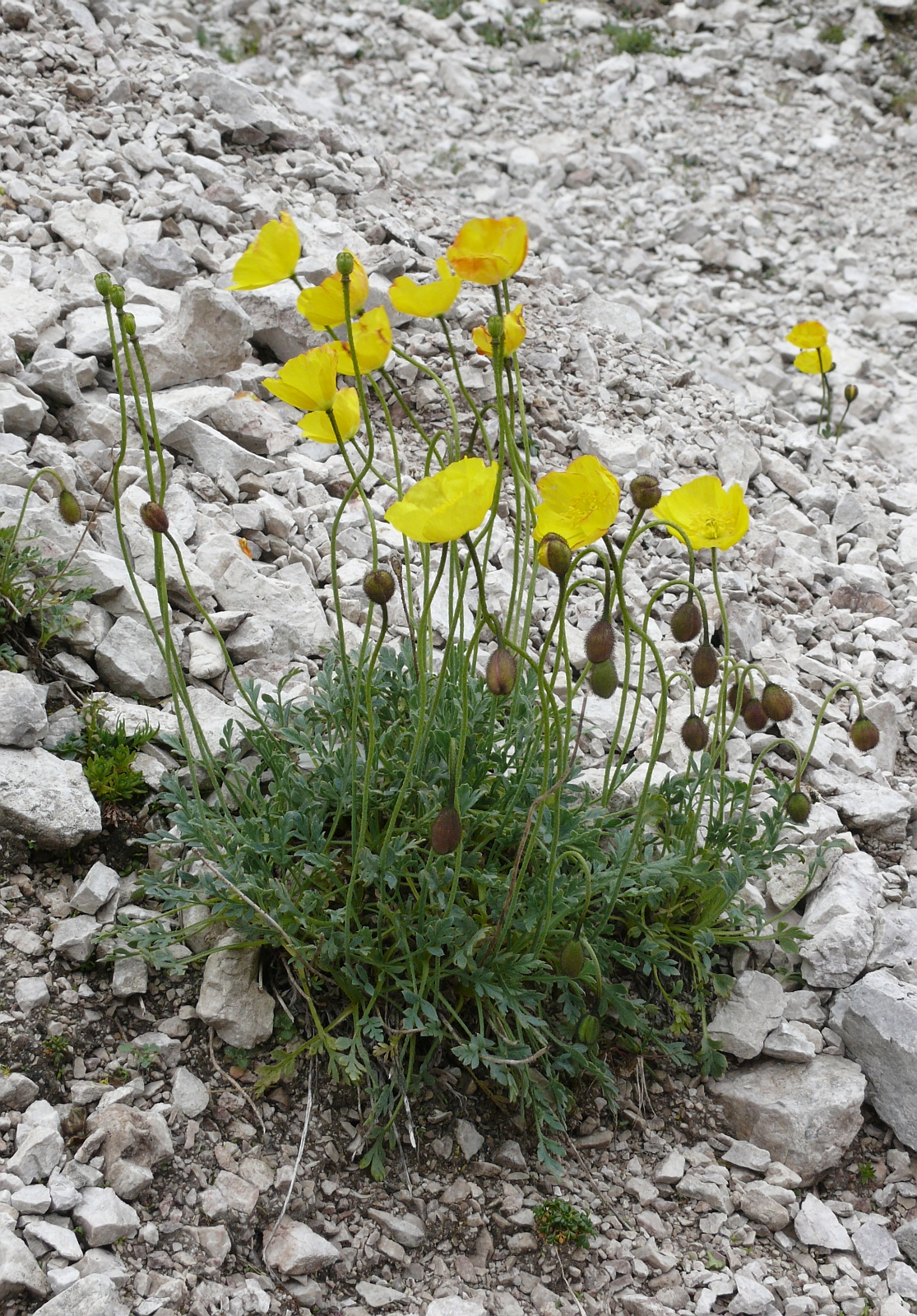 Papaver rhaeticum, Puez-Geisler-Gruppe, Italy